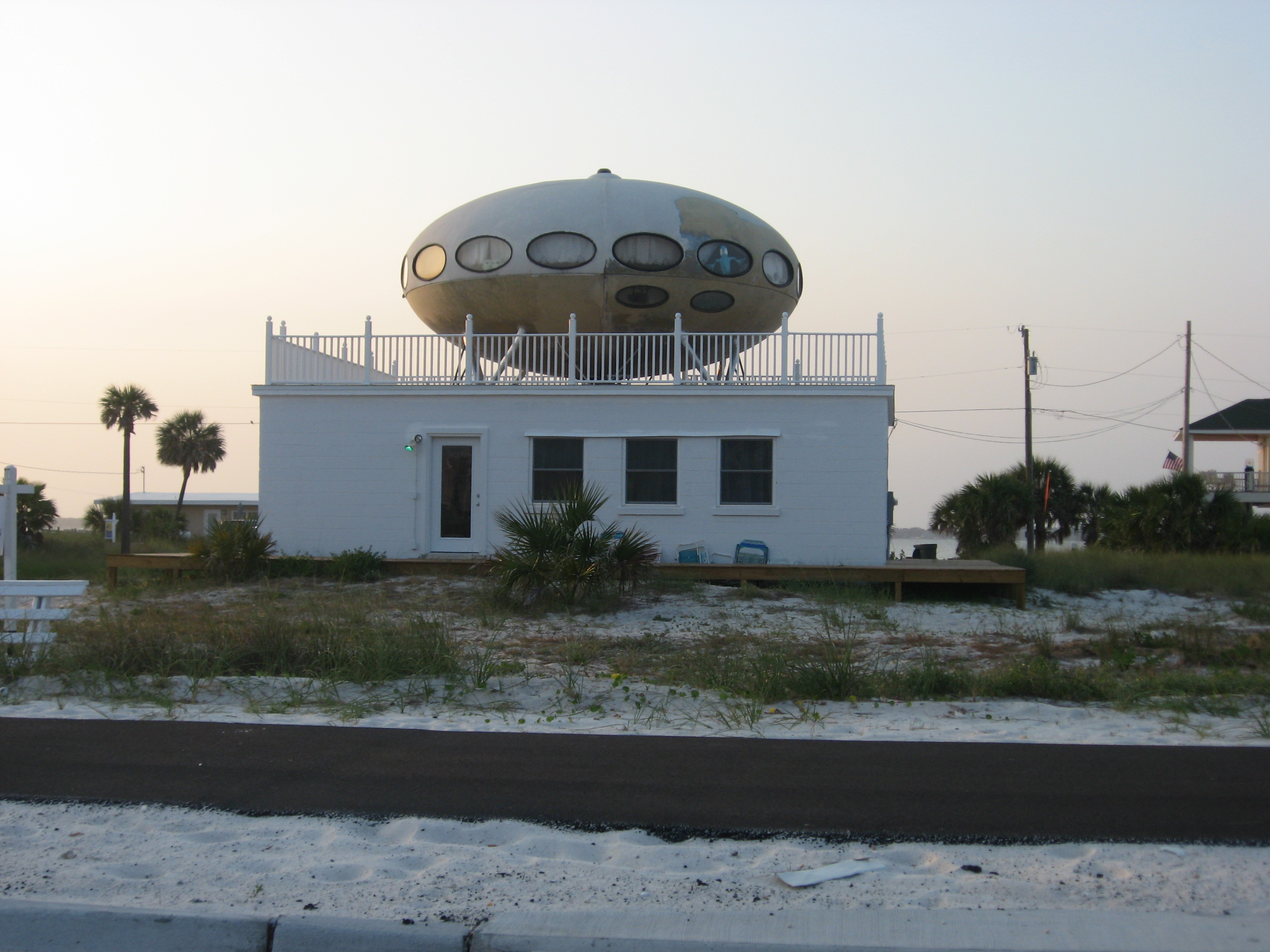 Description: The Futuro house in Pensacola Beach, Florida